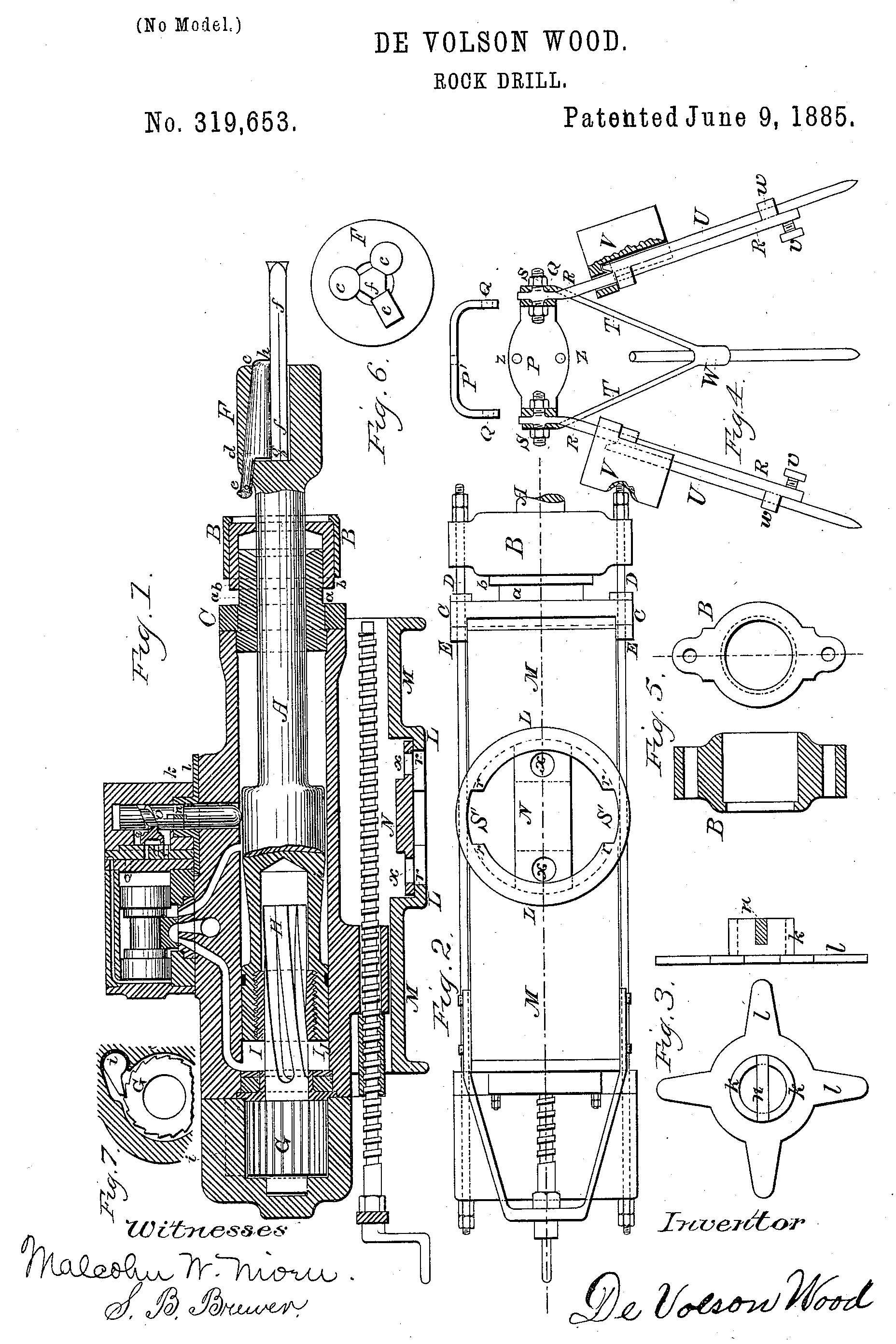 The rock drill patented by De Volson Wood